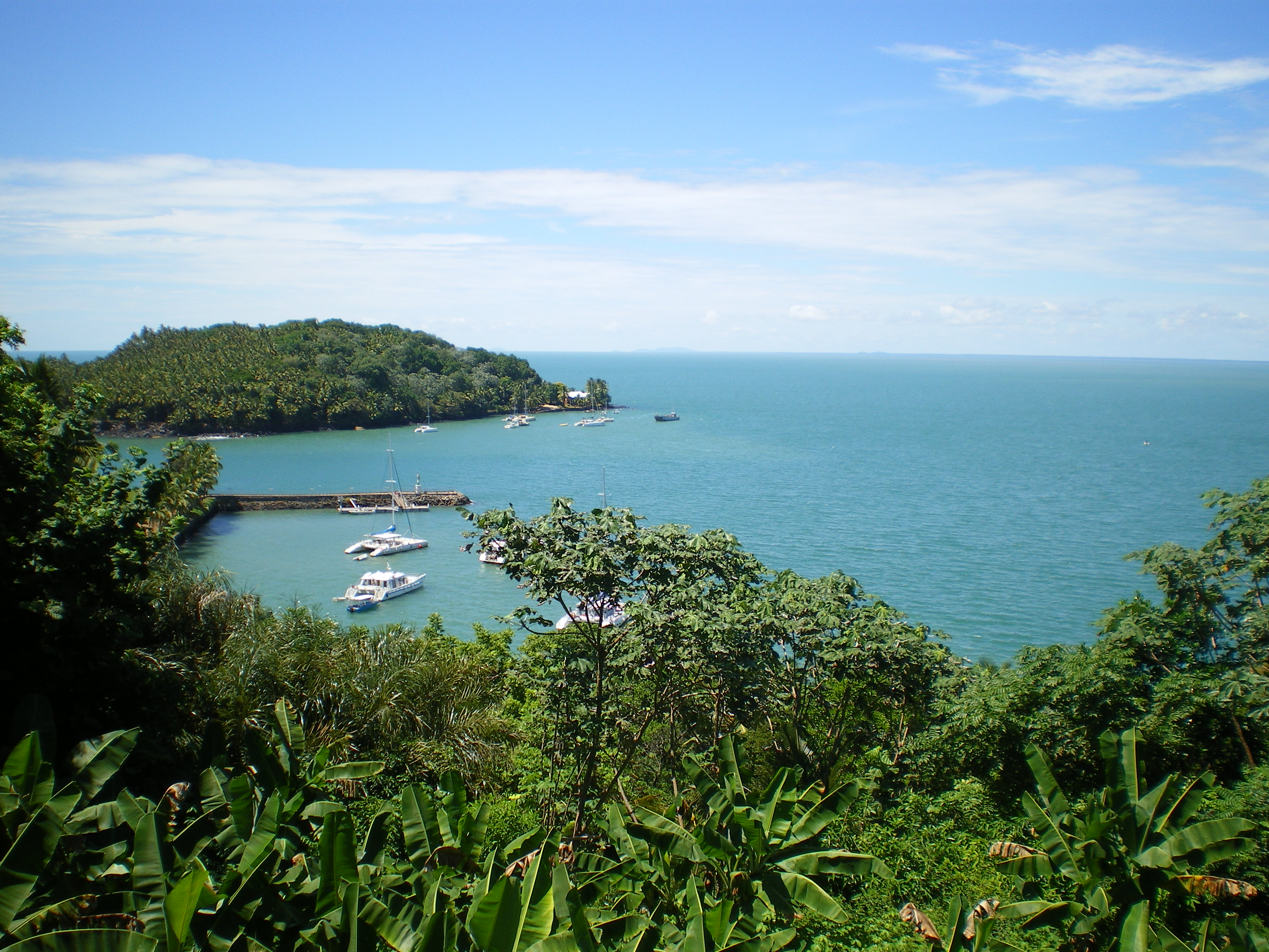 View from the île Royale : harbor and St Joseph island. French Guiana.